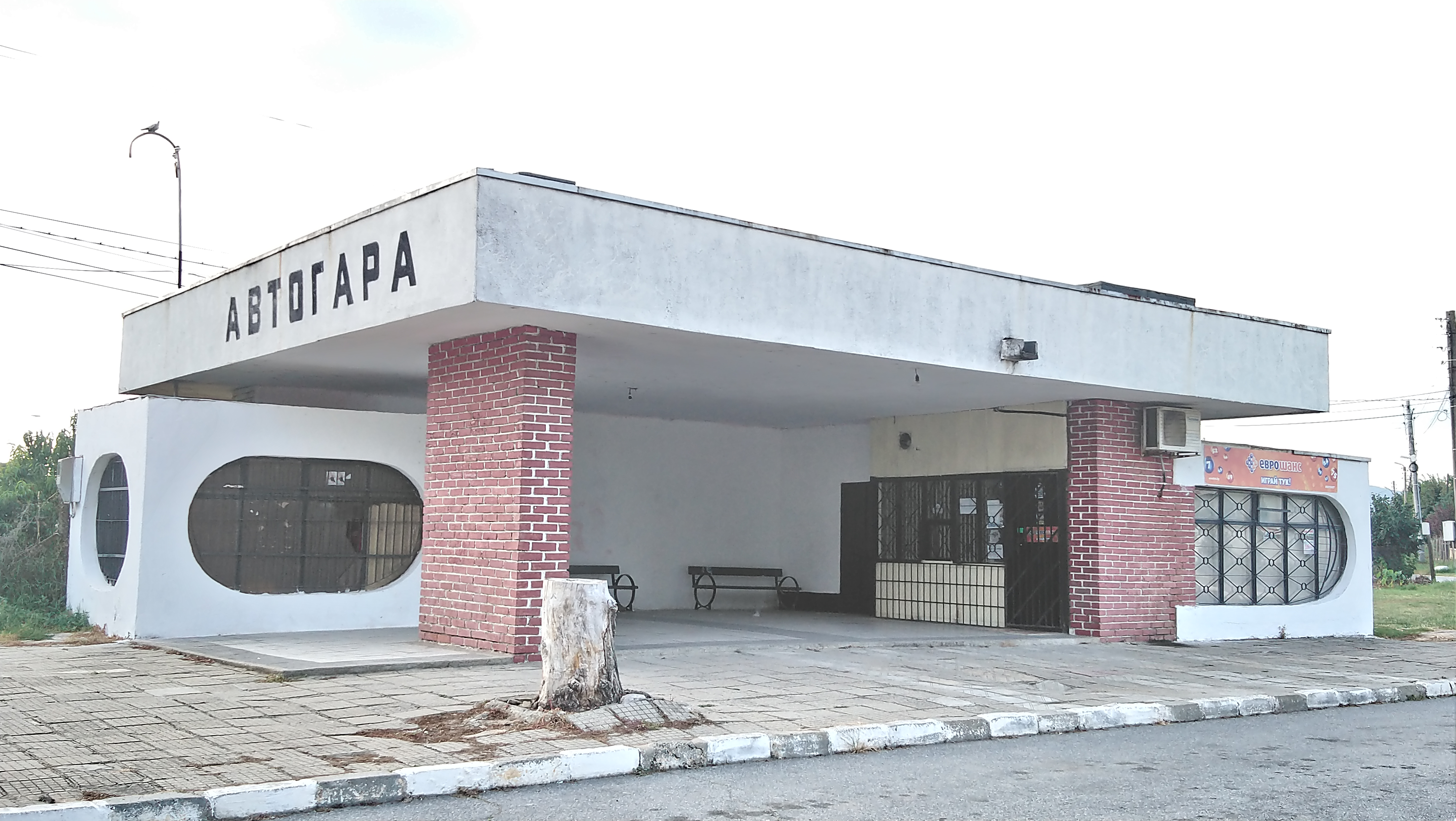 Zimnitsa (Yambol District) bus station